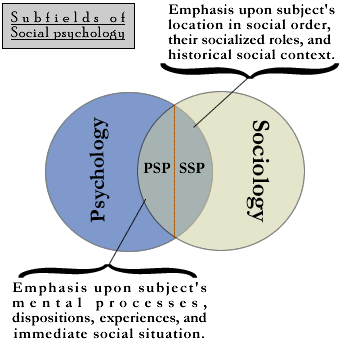 Created by lucidish for Wikipedia article: Social psychology.